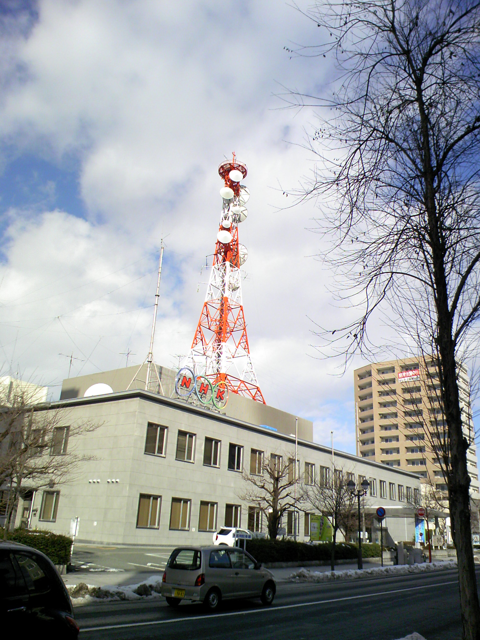 NHKYamagata